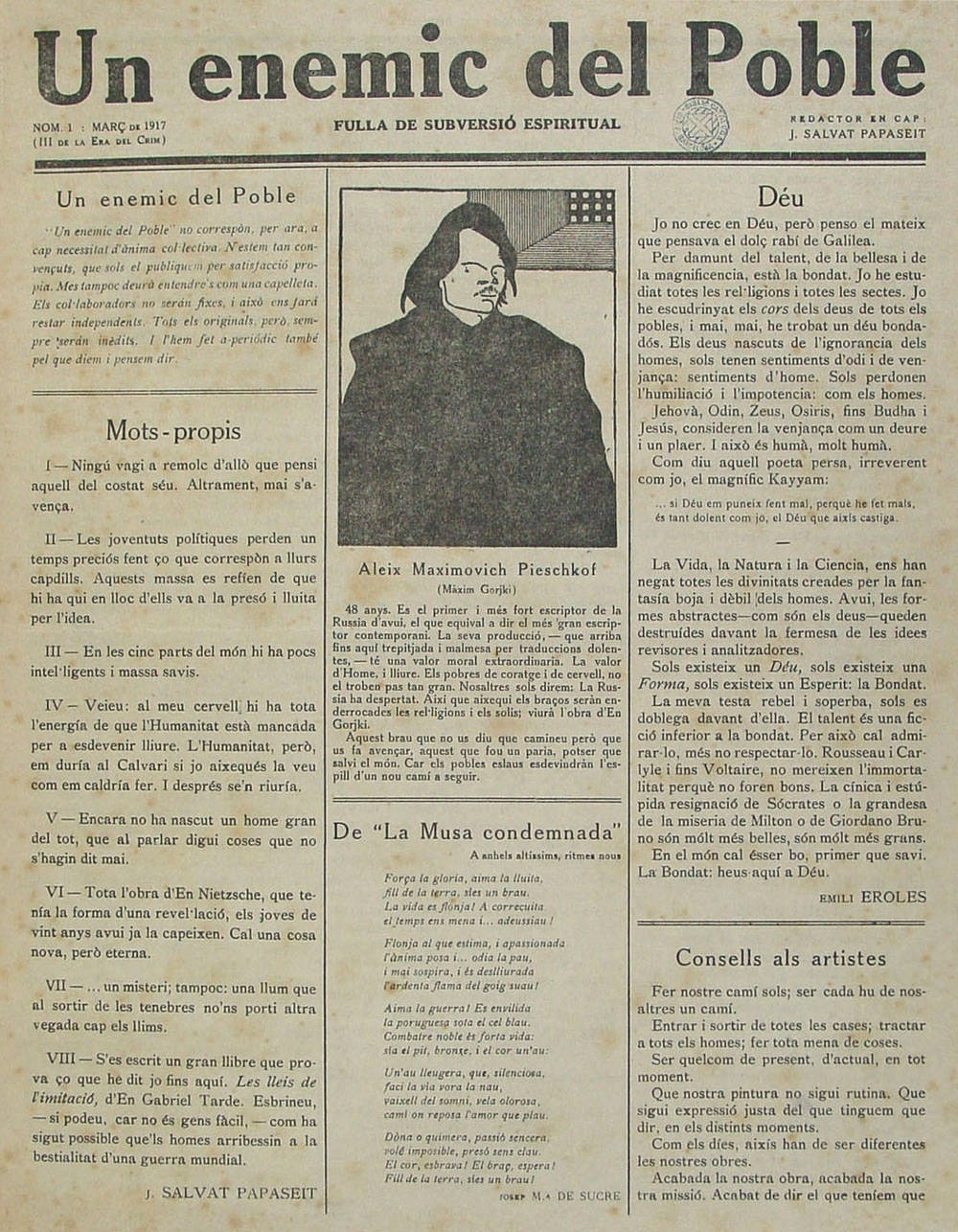 Cover of the first edition of the Catalan magazine Un Enemic del poble, directed by Joan Salvat-Papasseit.